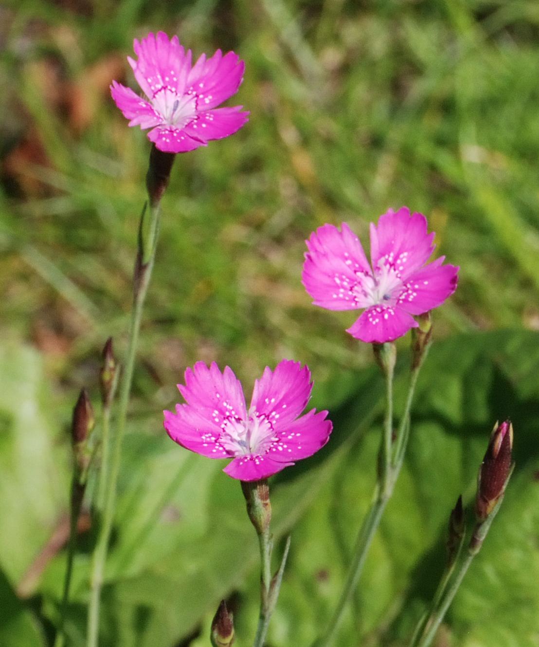 A Dianthus deltoides in Sweden.